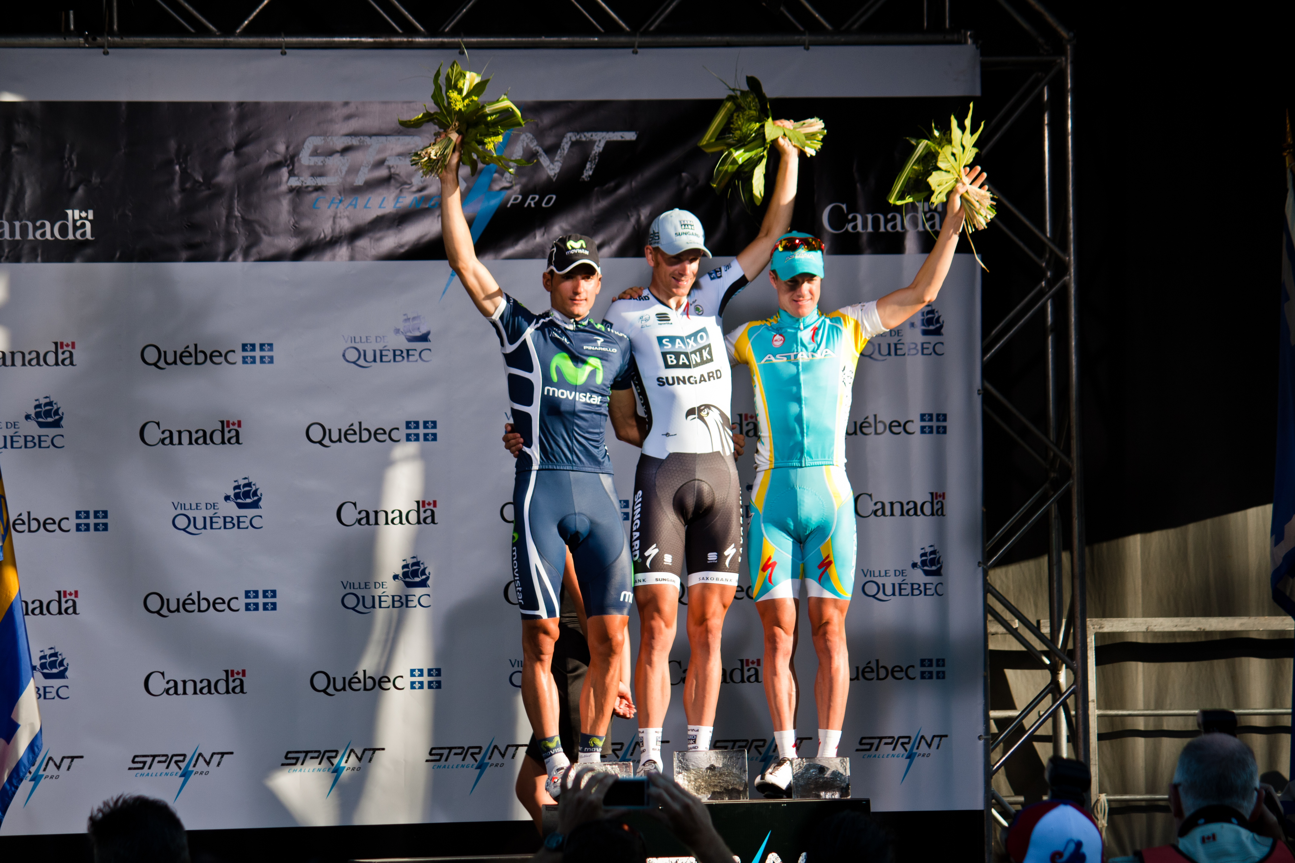 The podium, the winner Michael Morkov of Denmark in the middle, 2nd place Enrique Sanz of Spain on the left and 3rd place Simon Clark of Australia on the right of the picture. The 2 used bottles I got happened to be Movistar & Saxo Bank. Sprint Challenge, Grand Prix Cycliste de Québec, GPCQM, 2011.